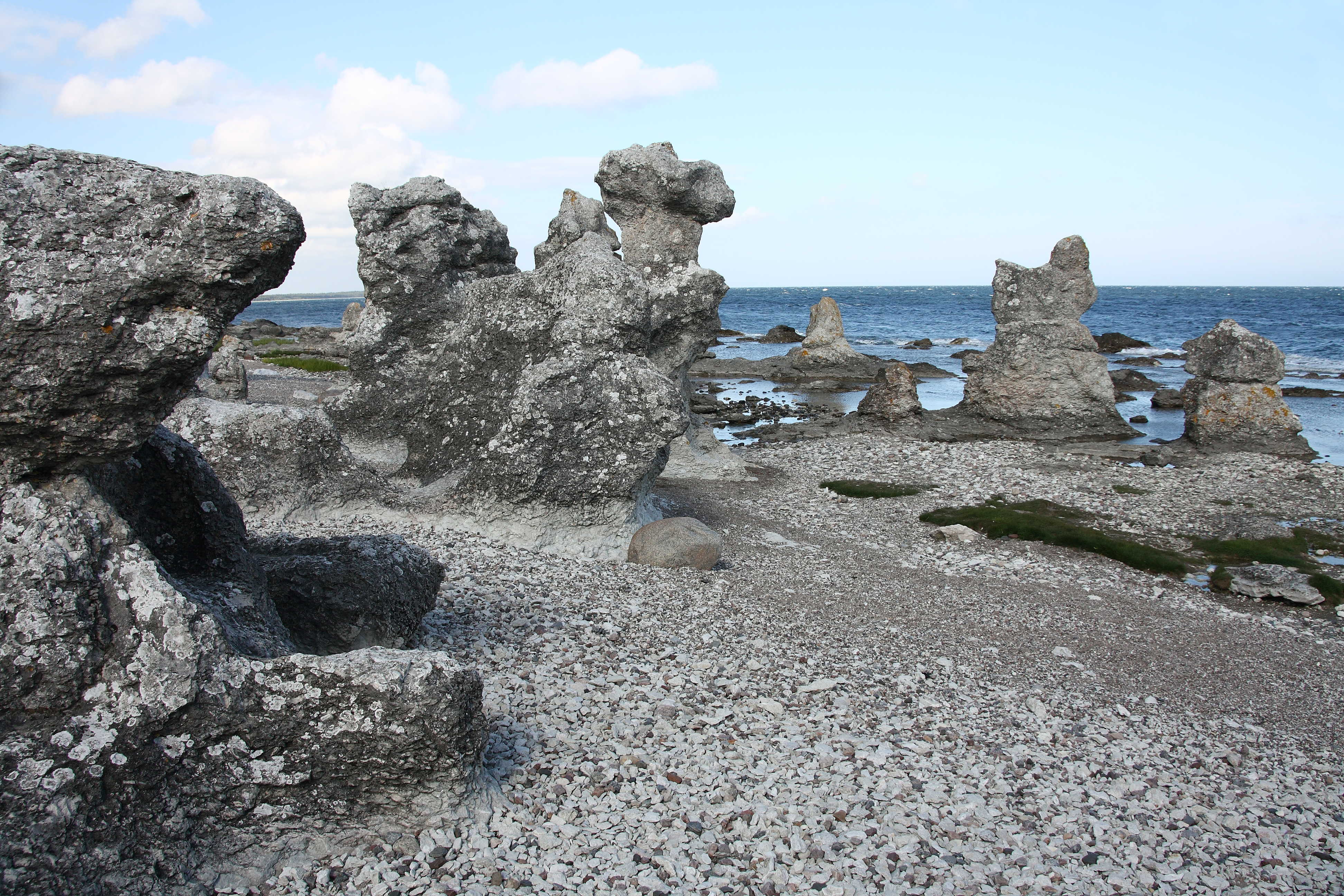 In the nature reserve of Folhammar near Ljugarn, Gotland.